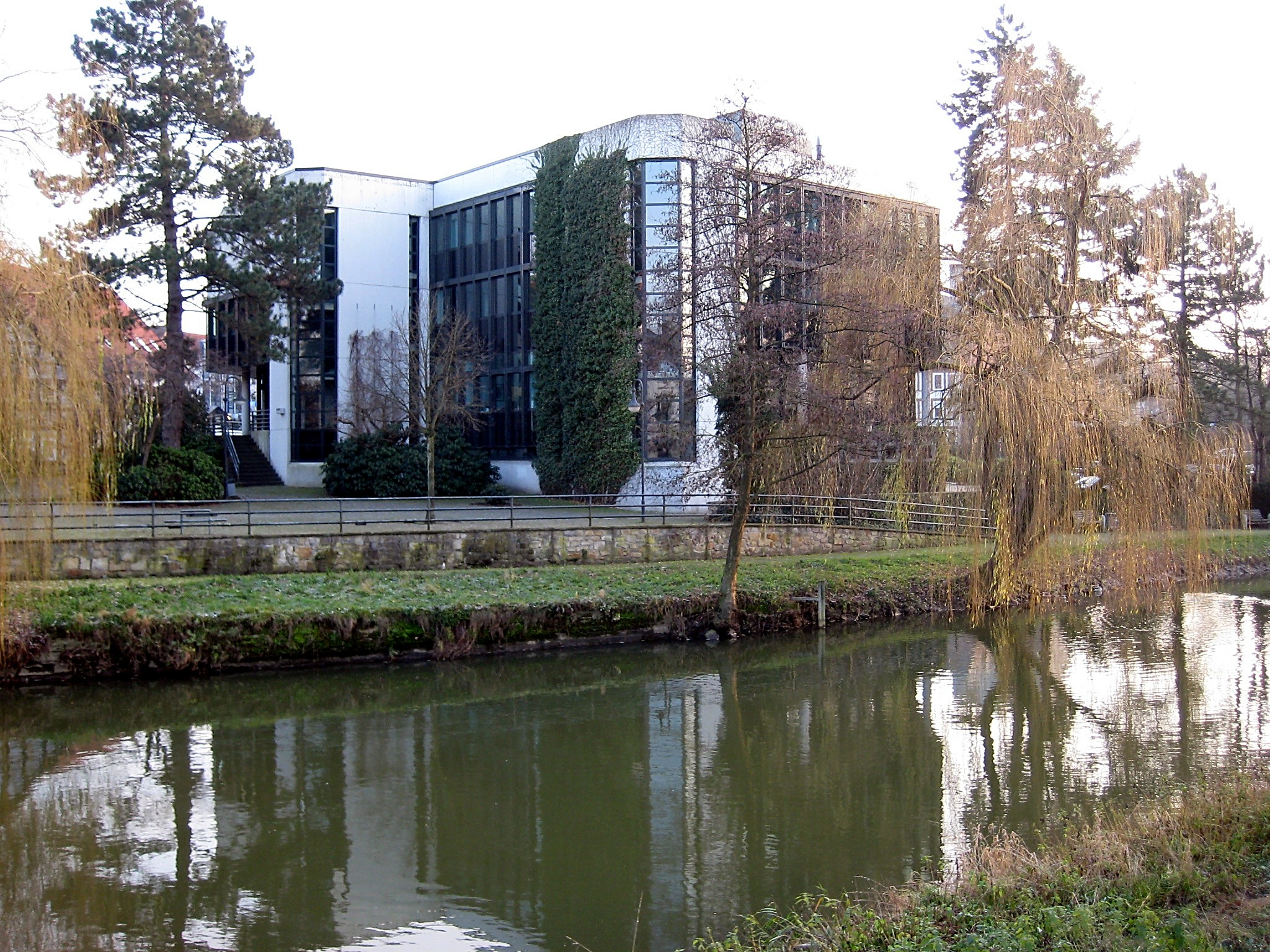 Town hall in Bünde, District of Herford, North Rhine-Westphalia, Germany.